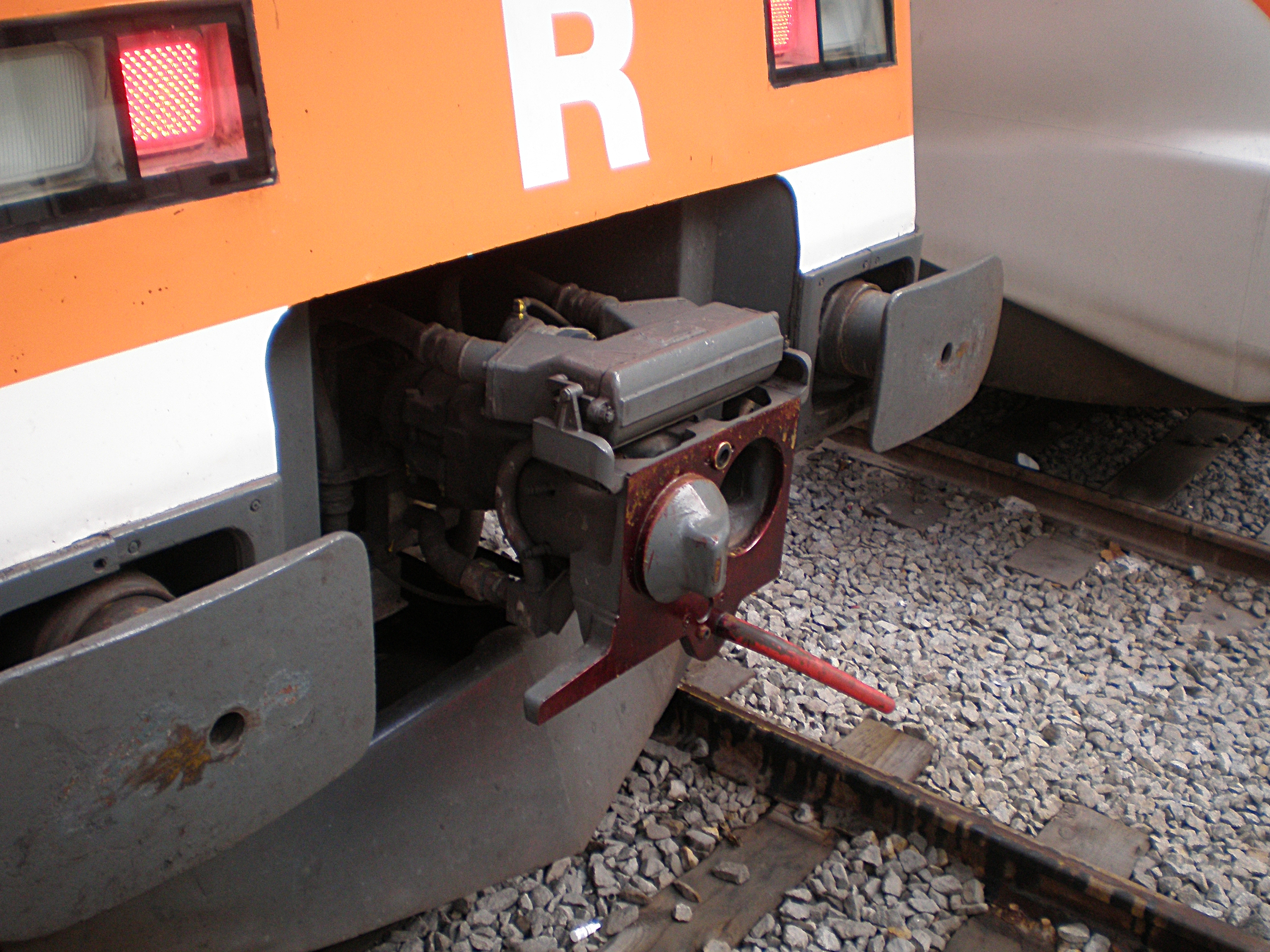 Scharfenberg coupler. Barcelona França railway station.